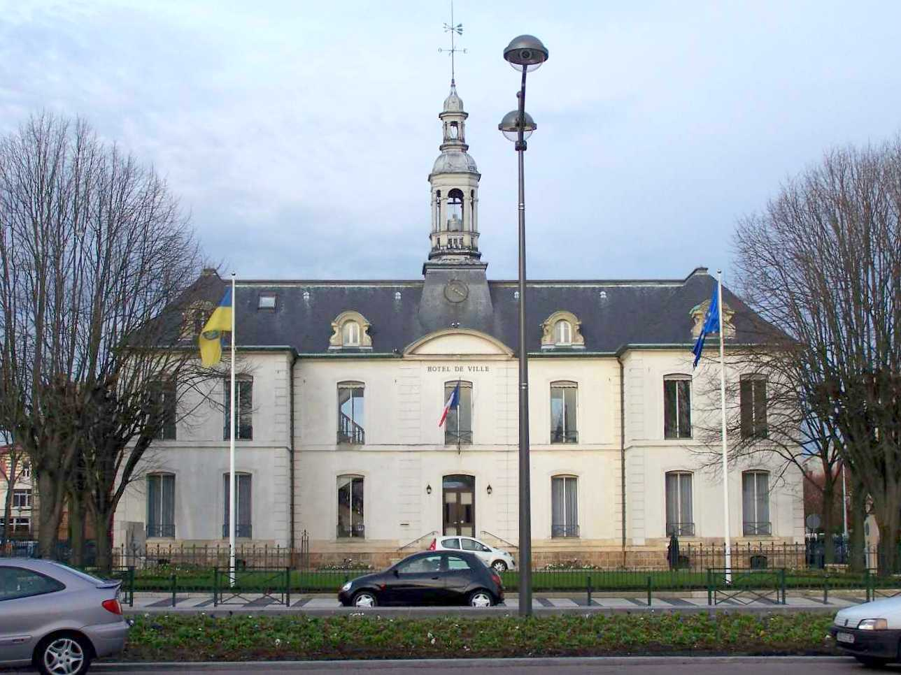 Town hall of Chatou (Yvelines, France)